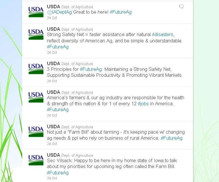 Live tweets as Secretary Vilsack lays out his 2012 Farm Bill priorities in a speech at the John Deere Des Moines Works.